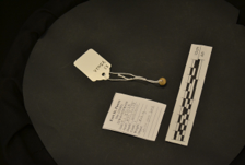 Photo taken by Kyra McCormick, Becca Leon, and LisaMarie Malischke